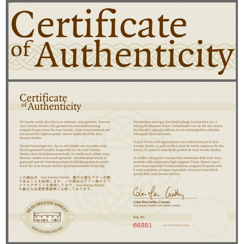 An original Certificate of Authenticity as issued by The Aran Sweater Market (